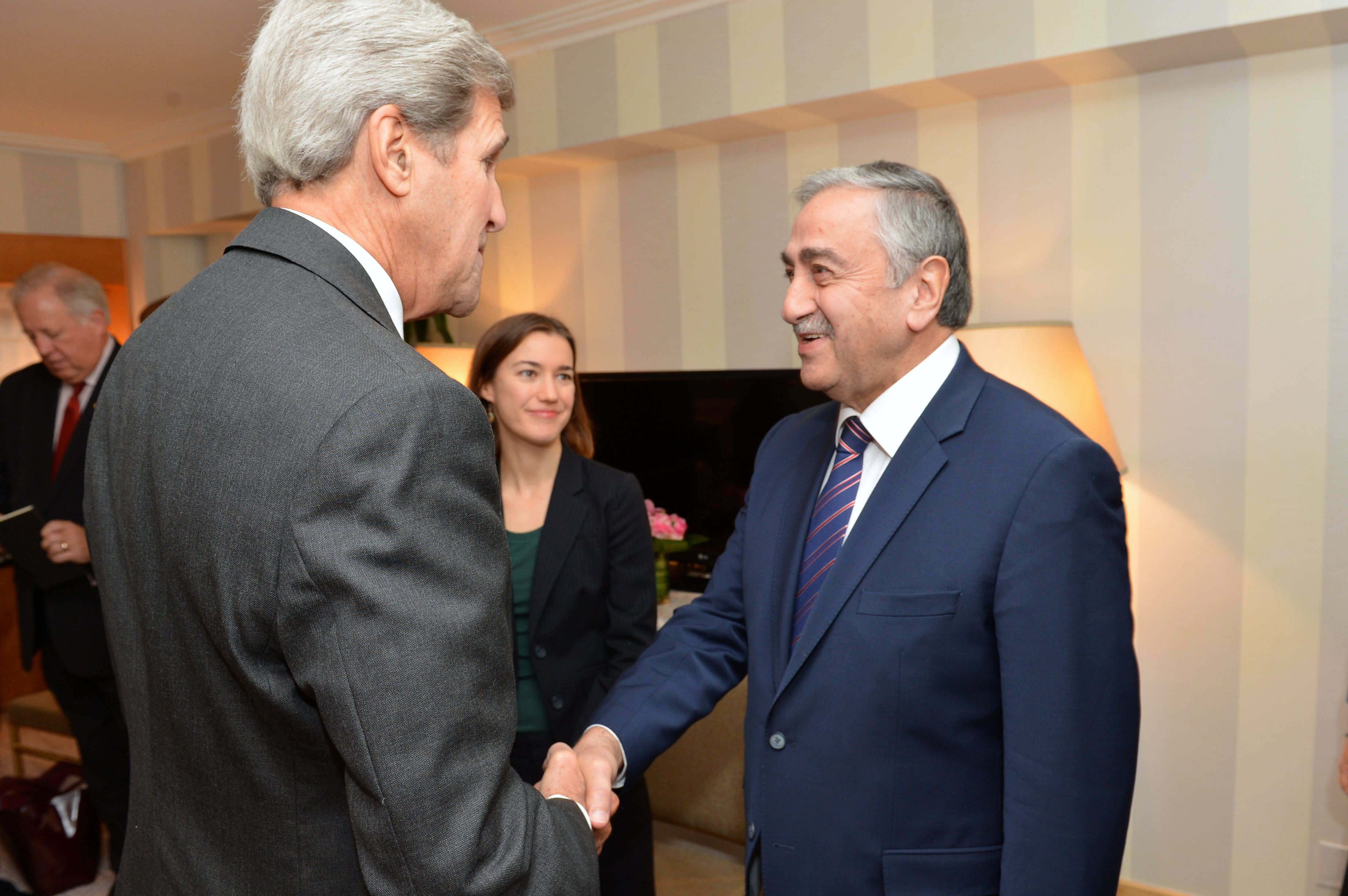 U.S. Secretary of State John Kerry greets Turkish Cypriot leader Mustafa Akinci before their bilateral meeting on the sidelines of the 70th Regular Session of the UN General Assembly in New York, New York, on October 2, 2015. [State Department photo/ Public Domain]